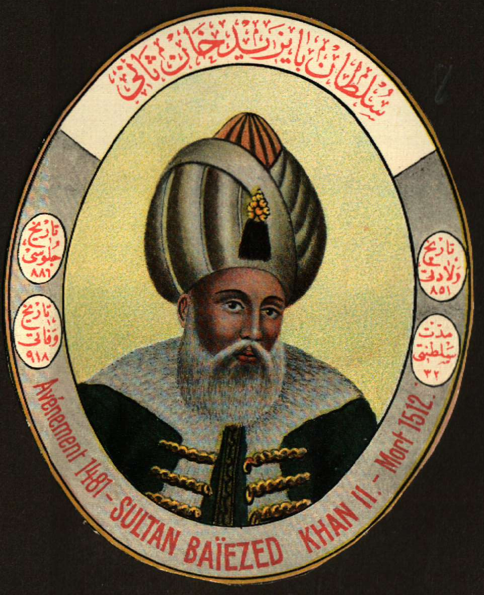 Bayezid II